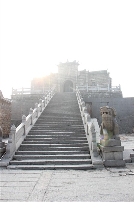 Mount Heng, is located in Hunan Province, People's Republic of China and is one of the Five Great Mountains in China.This photo shows Zhu Rong Peak.